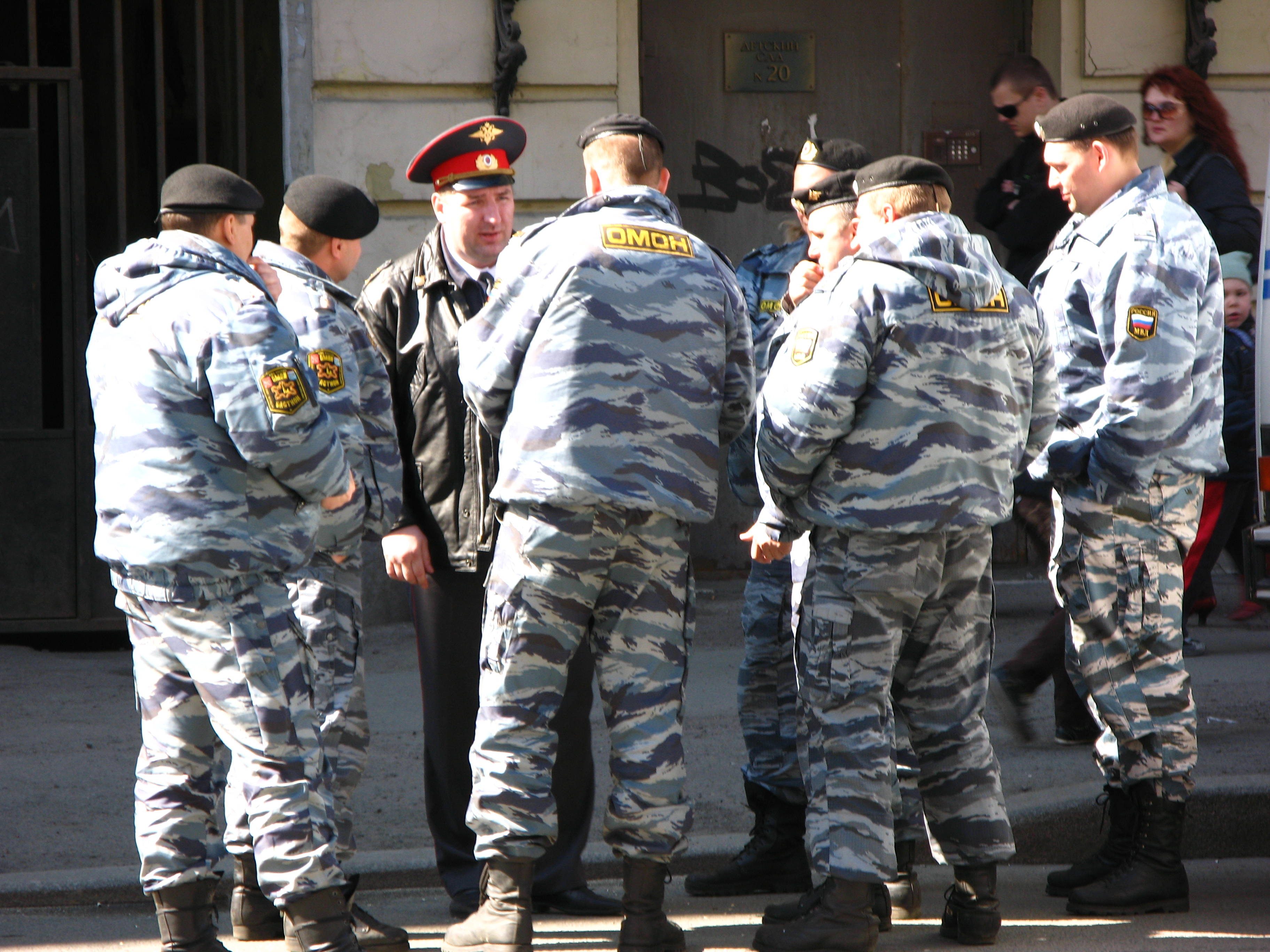 ОМОН, Russian special police.